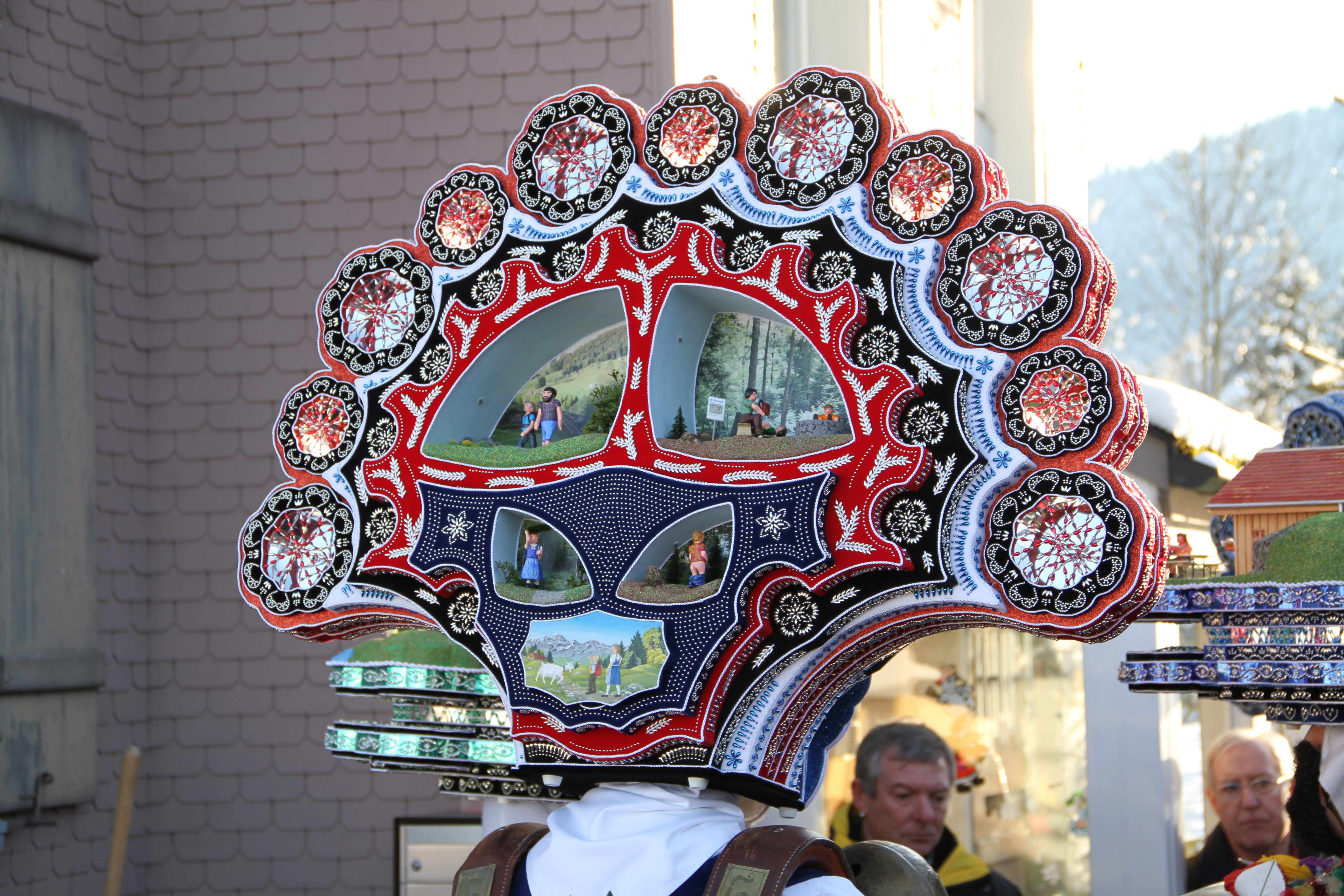 Celebrating "old" New Year's Eve in Urnäsch, Appenzell, Switzerland (2013)